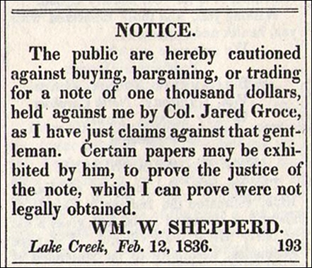 Advertisement placed by W. W. Shepperd in the March 17, 1836 edition of the Telegraph and Texas Register, Vol. I, No. 20, published at San Felipe de Austin, Texas.